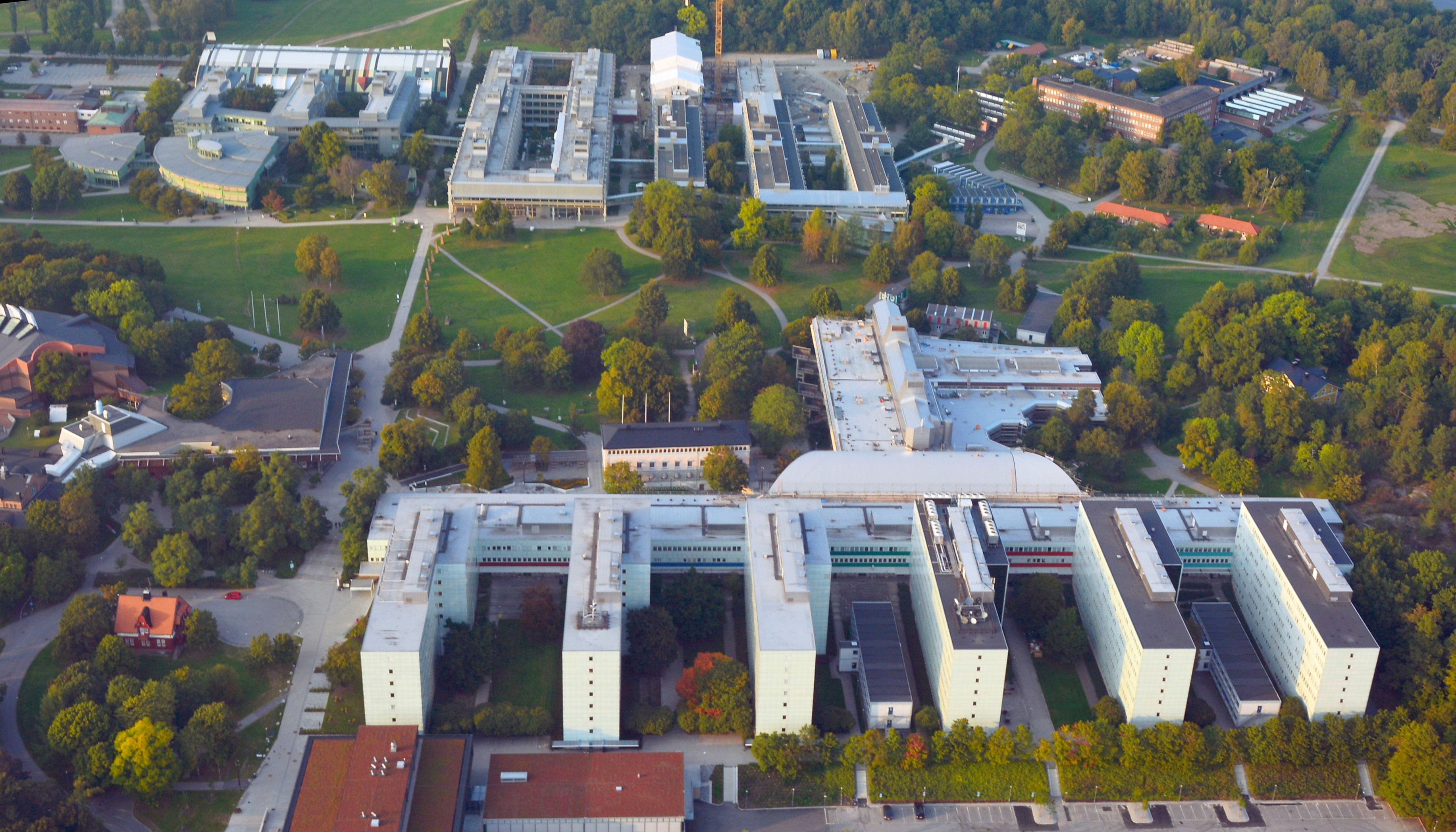 Stockholm University